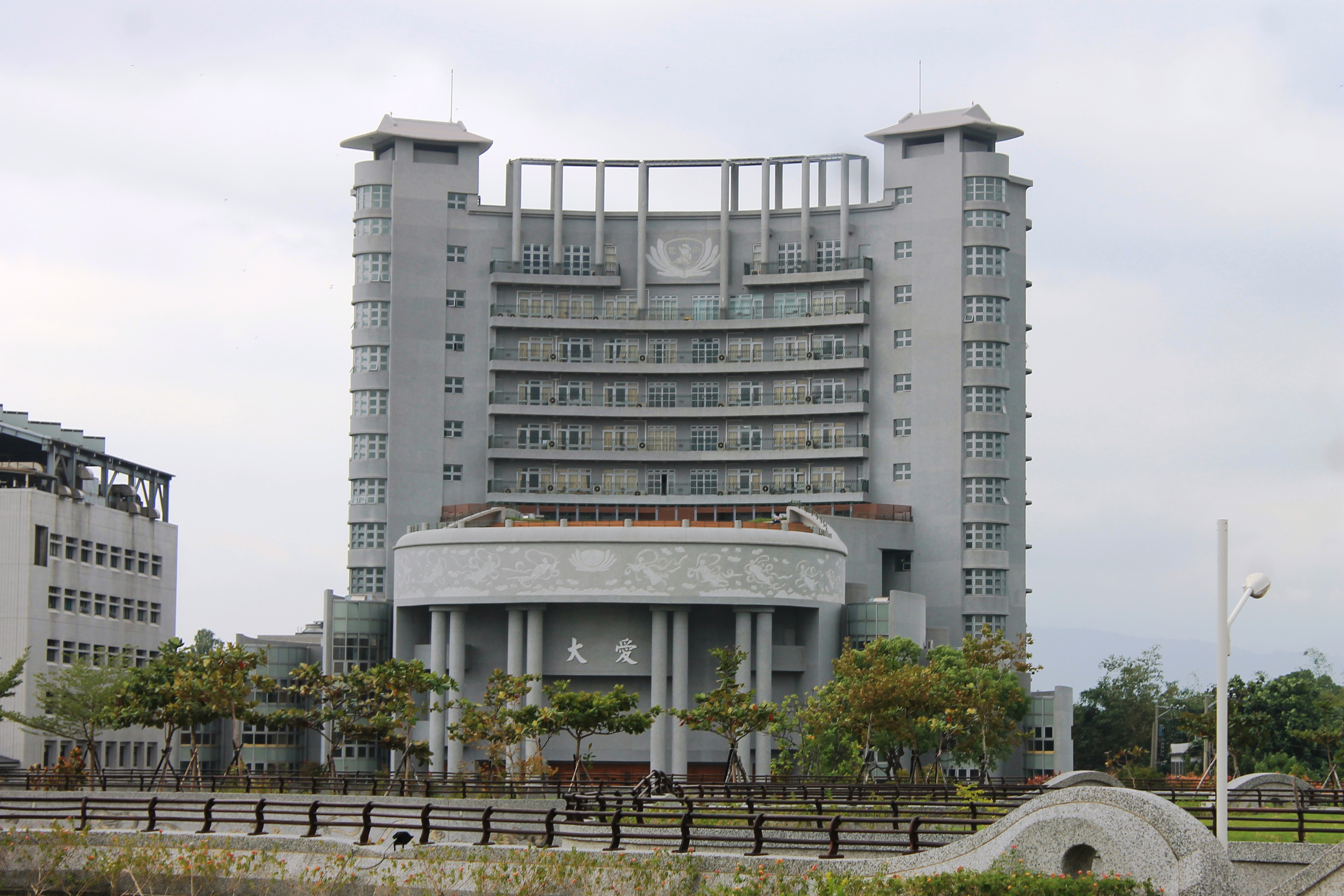 Da Ai building (also known as Great Love building) of Tzu Chi University. Floor Directory: 13F-Conference Hall 12F-Department of Communication Studies, Radio Station, Media Production, and Education Center 11F-Department of Communication Studies 10F-Center for Teacher Education 9F-Dean's Office College of Education and Communication, Institute of Education 8F-Department of Child Development and Family Studies 7F-Department of Child Development and Family Studies, Outdoor plaza 6F-Center for Faculty Development and Institutional Resources, College for Liberal Arts and Basic Education 5F-Common Classroom 4F-Common Classroom 3F-Common Classroom, Lecture Room 2F-Common Classroom 1F-Da-Ai Art Center, Tzu Cheng/Yi Te's office B1-Central Energy Facility B2-Student Activity Space